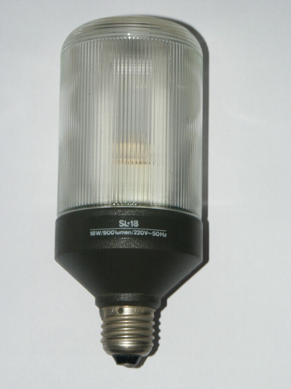 Philips CFL bulb from the 1980's